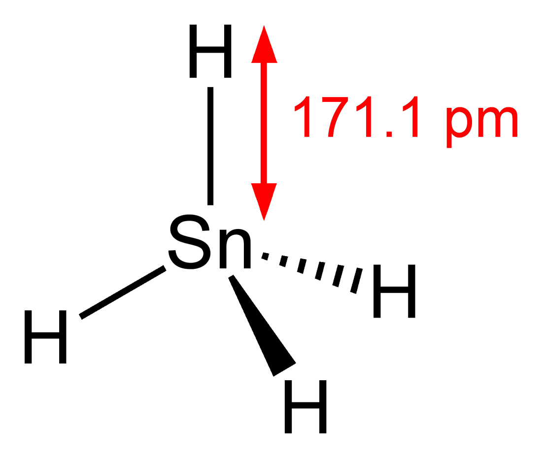 Structural formula of the stannane molecule, SnH4. The molecule belongs to the Td point group. Structural information (determined by microwave spectroscopy) from CRC Handbook, 88th edition.